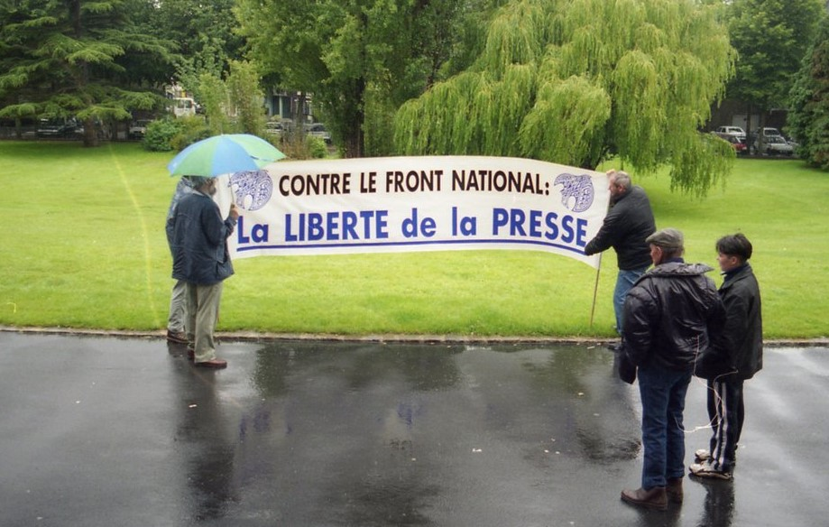 Banner "Against the National Front: freedom of the press" deployed on 28 August 1997 in front of the tribunal of Saint-Brieuc during a lawsuit filed by the FN against the magazine Le Peuple Breton.